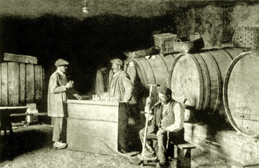 Cider bar. Colunga, Asturias. Archivu d'Astur Paredes